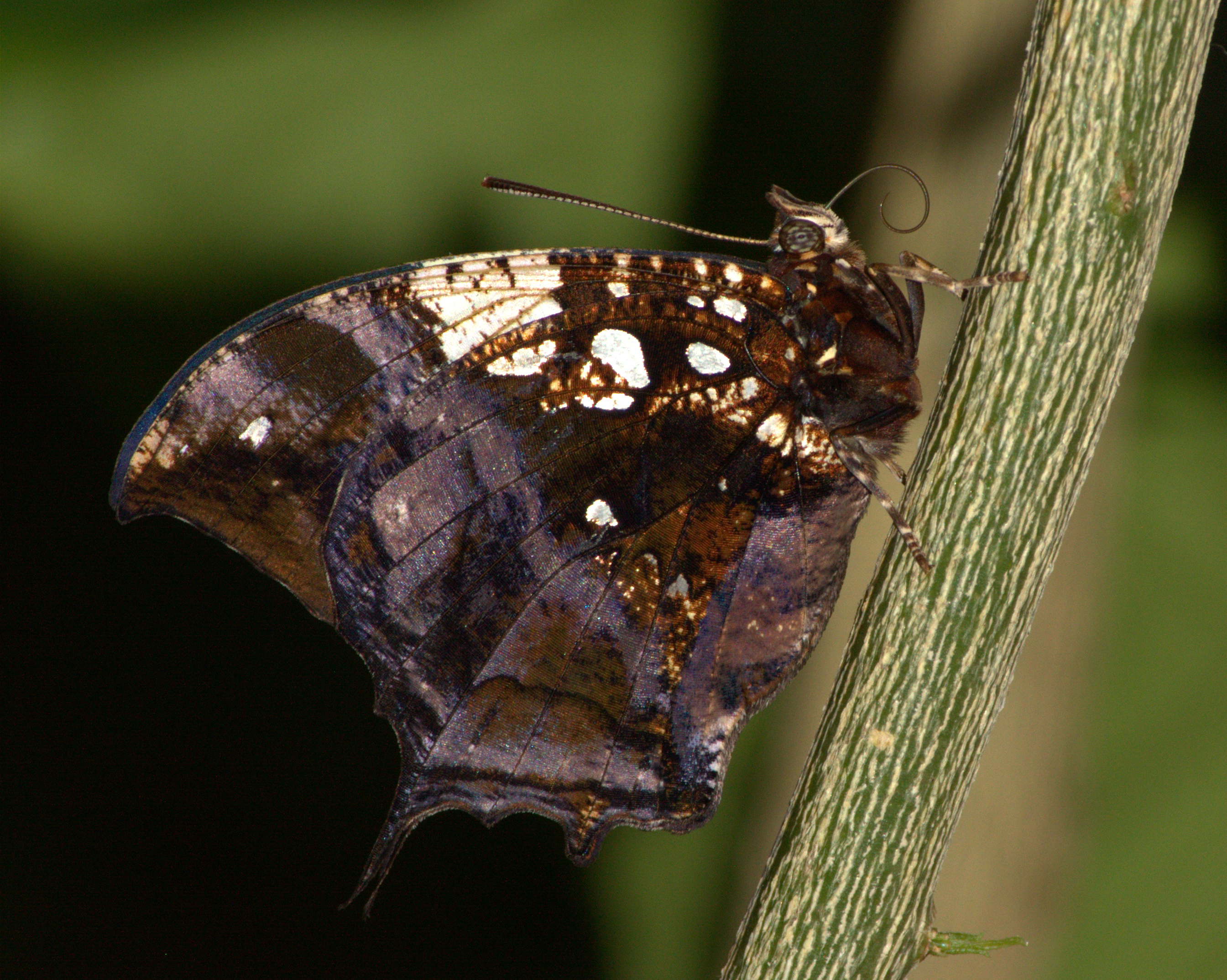 Hypna clytemnestra, the jazzy leafwing, marbled leafwing or silver-studded leafwing - taken at Krohn conservatory